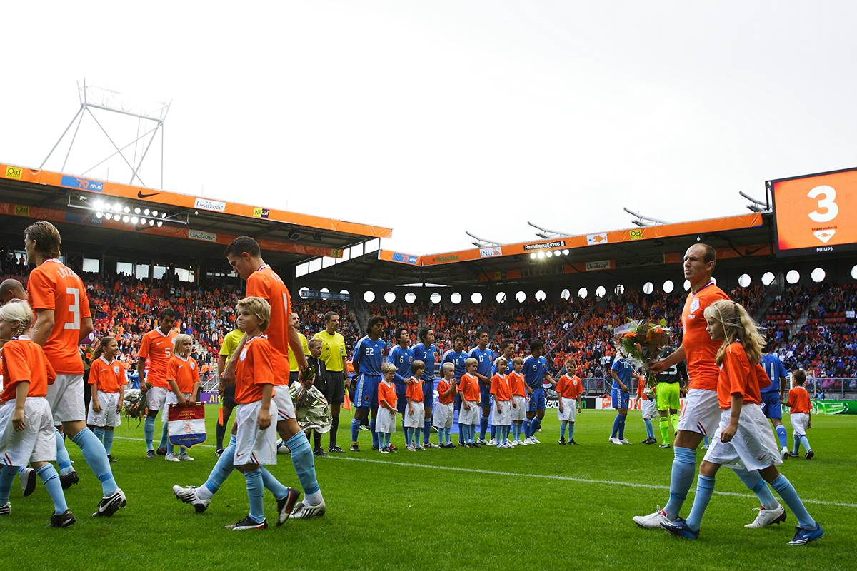 SEPTEMBER 5, 2009 - Football : Dutch players enter the pitch before the international friendly match between Netherlands and Japan at FC Twente Stadium on September 5, 2009 in Enschede, Netherlands. (Photo by Tsutomu Takasu)